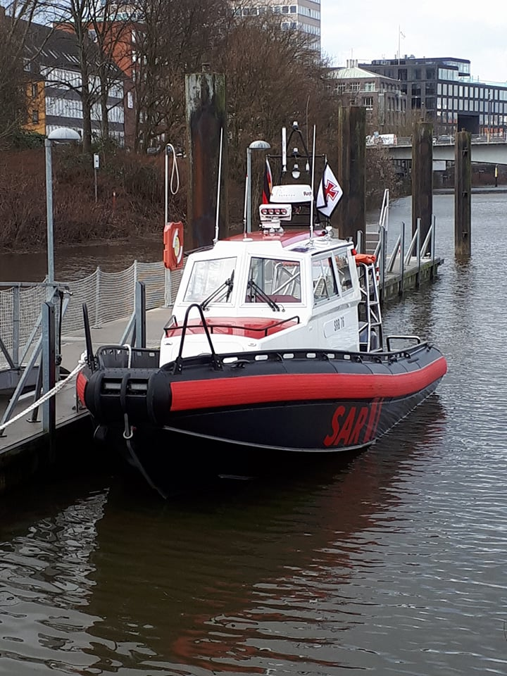 Picture of SRB 76 taken in February 2018